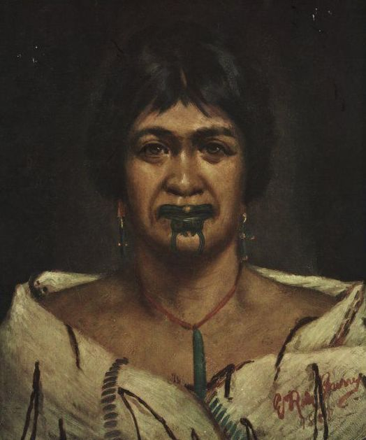 Wai-Ringiringi, a Maori chieftaines by Sperrey, Eleanor Katherine 1862-1893 1935ish